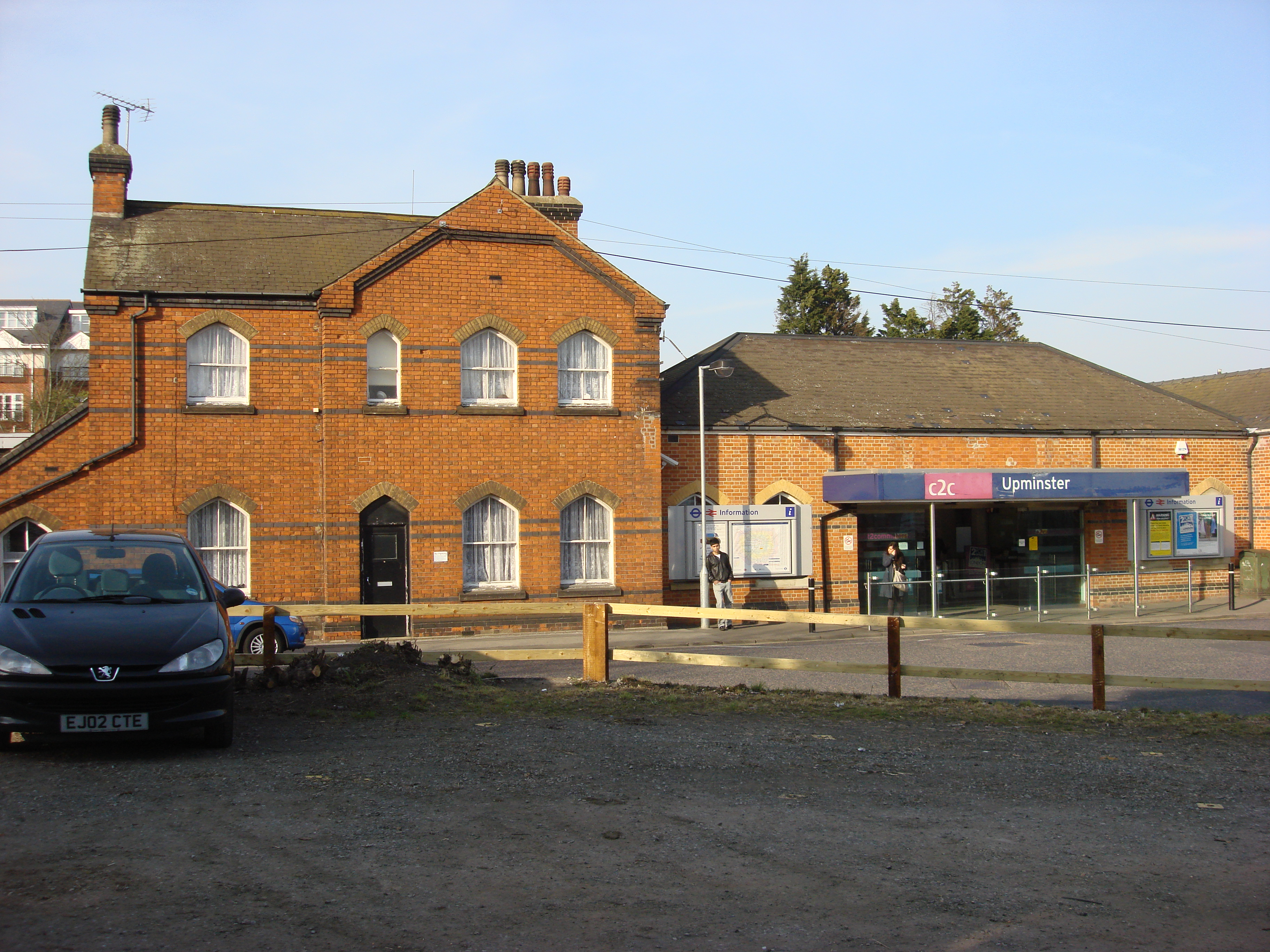 Upminster railway station